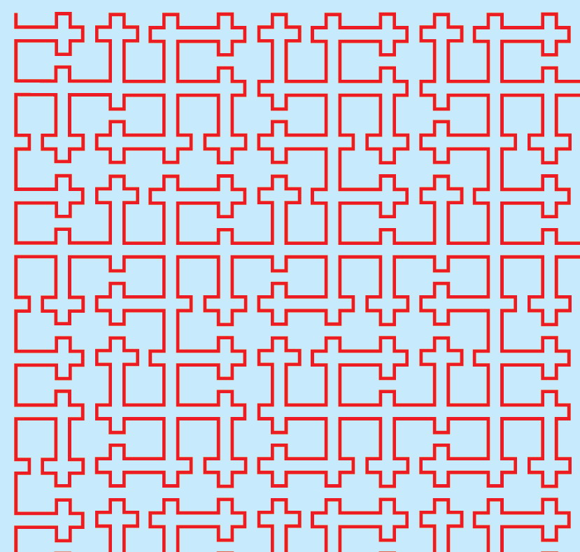 Osgood Curve